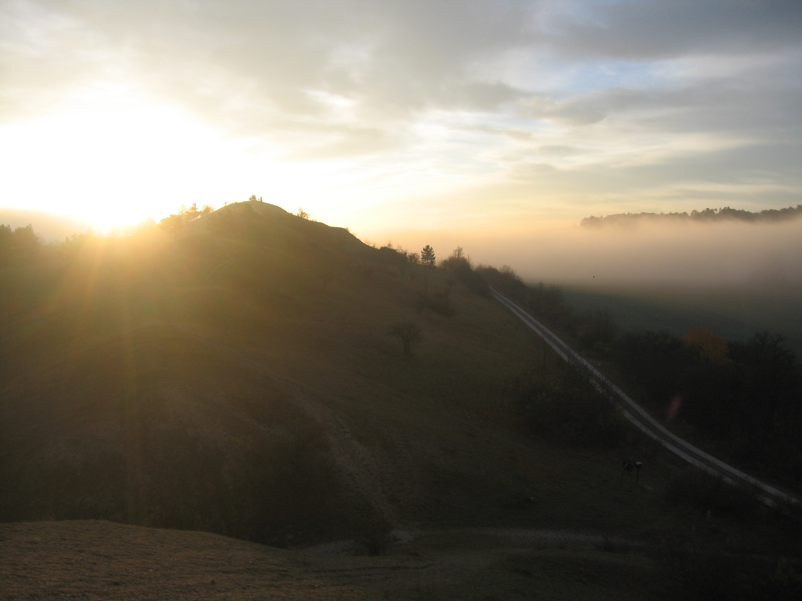 Sunrise over the Ziegenberg hill seen from the neighbouring Struvenberg; "Ziegenberg bei Heimburg" nature reserve in Saxony-Anhalt, Germany